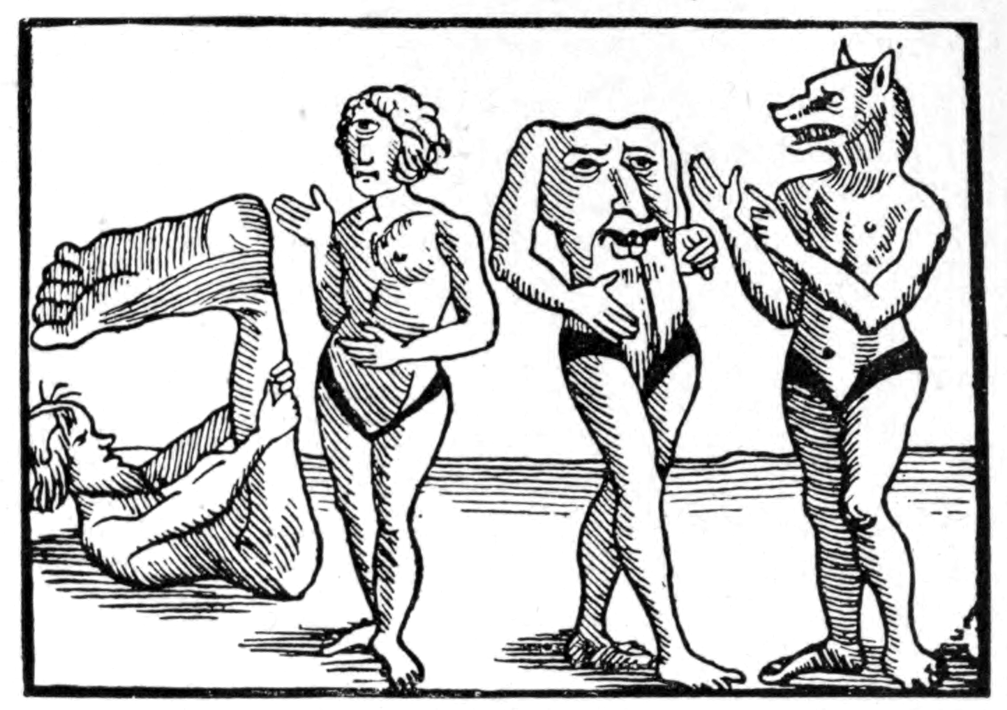 Illustraion from raw scan of The story of geographical discovery: how the world became known Jacobs, Joseph, 1854-1916 New York : D. Appleton The description in that work states: "Geographical Monsters (from an early edition of Mandeville's Travels).—Most of the mediæval maps were dotted over with similar monstrosities"